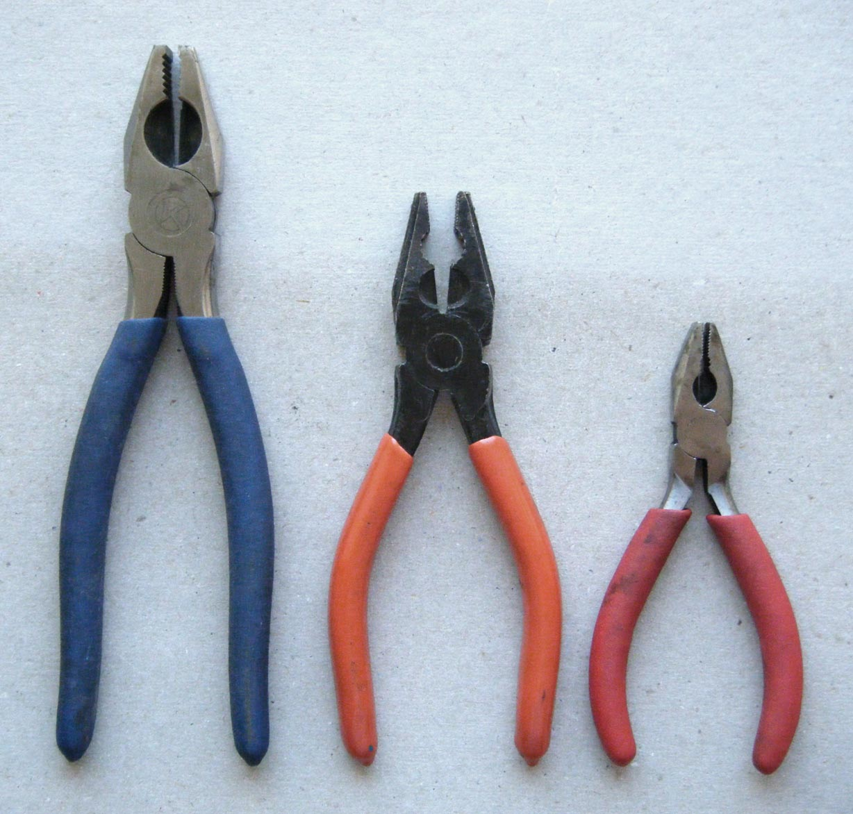 Pliers 2